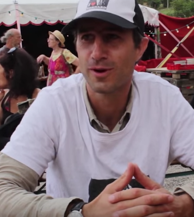 Screenshot of French journalist and filmmaker François Ruffin, talking to Alter JT